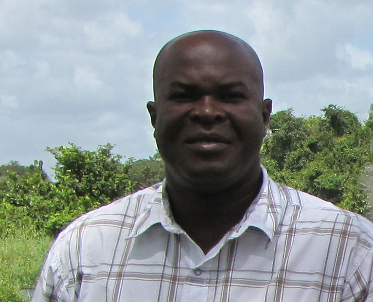 Ronnie Brunswijk